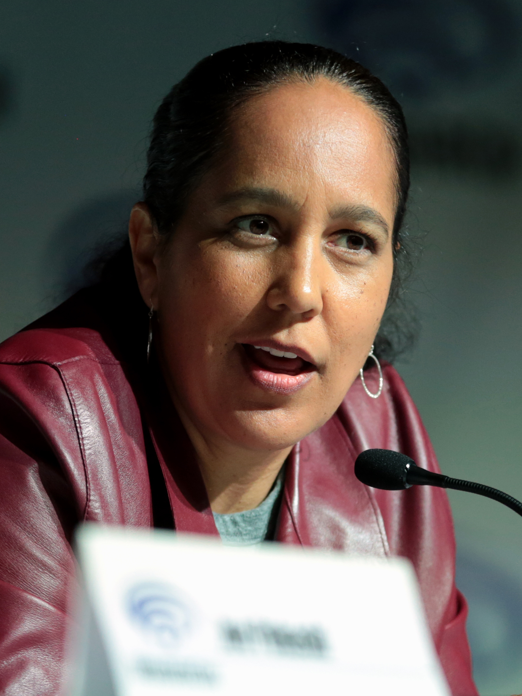 Gina Prince-Bythewood speaking at the 2018 WonderCon, for "Cloak & Dagger", at the Anaheim Convention Center in Anaheim, California.